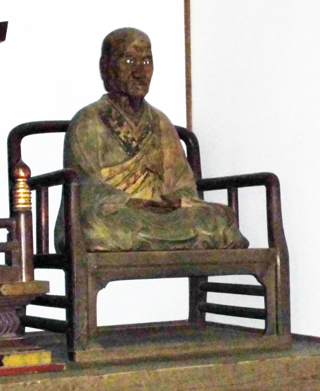 Wooden statue of the calligrapher, scholar, and monk Dài Màngōng alias Obaku Dokuryū (1596–1672) in the Heirin-Temple (Heirin-ji), Niiza City, Saitama Prefecture Japan.